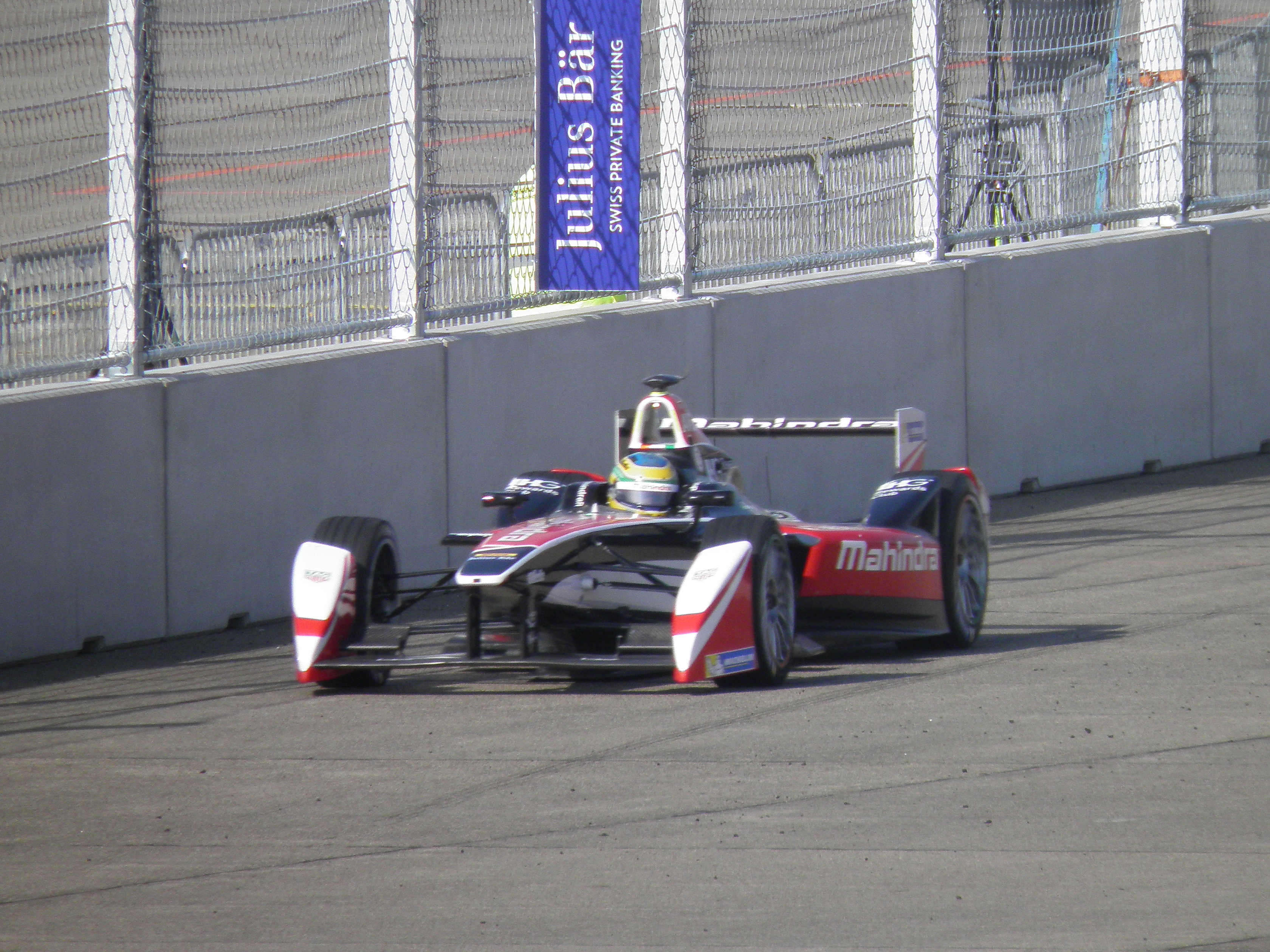 Bruno Senna, Mahindra Racing, driving in Berlin ePrix on May 23, 2015